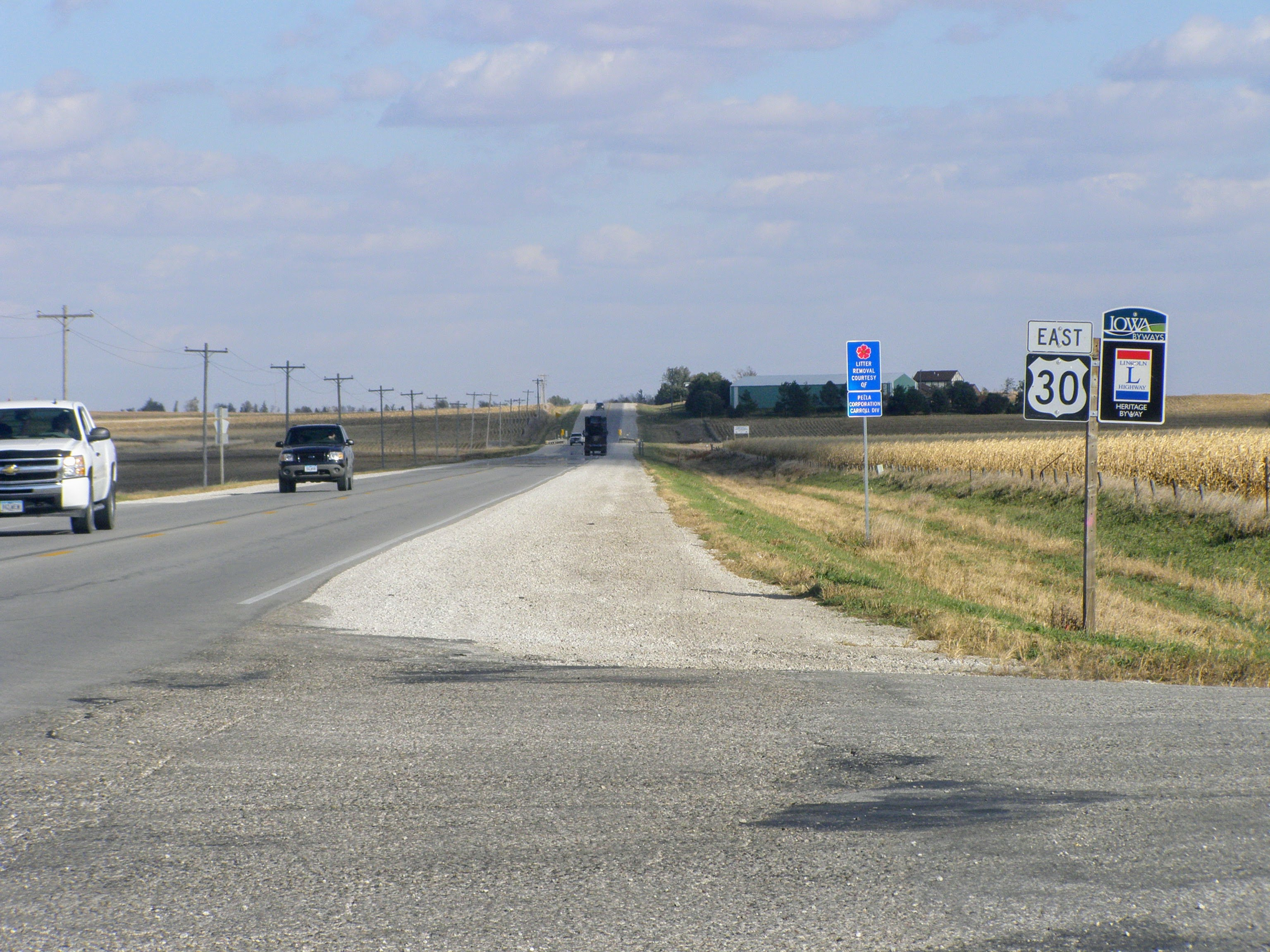 U.S. 30, the original Lincoln Highway through western, Iowa, near Denison, Iowa.